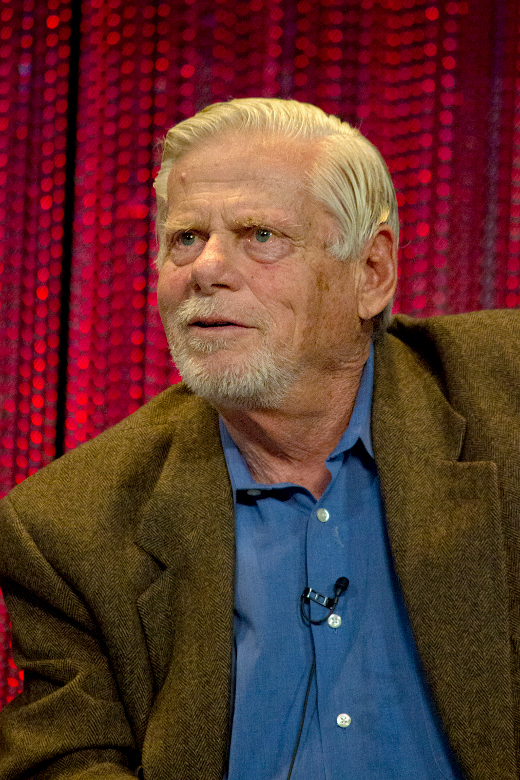 Actor Robert Morse at The Paley Center For Media's PaleyFest 2014 Honoring "Mad Men"